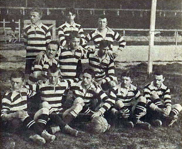 Former polish football club Lechia Lwów (now Lviv in Ukraine) in 1909